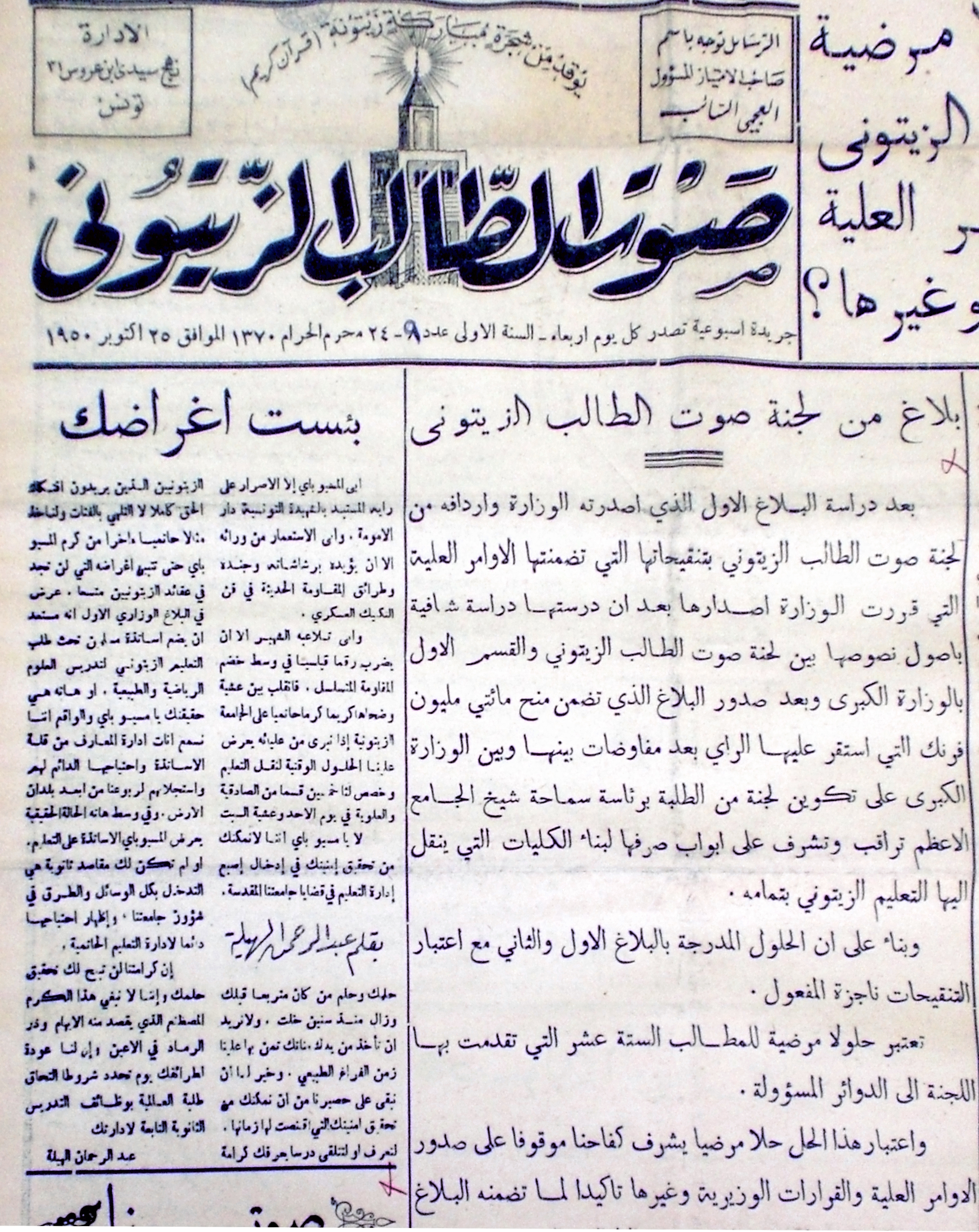 Sawt attalib Zitouni-Tunisian Newspaper 1950